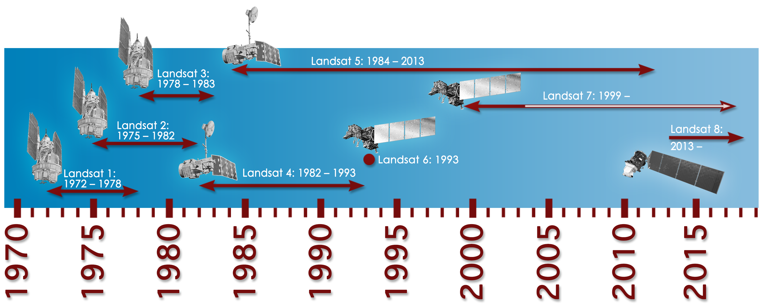 A timeline of Landsat satellites (as of 2014).